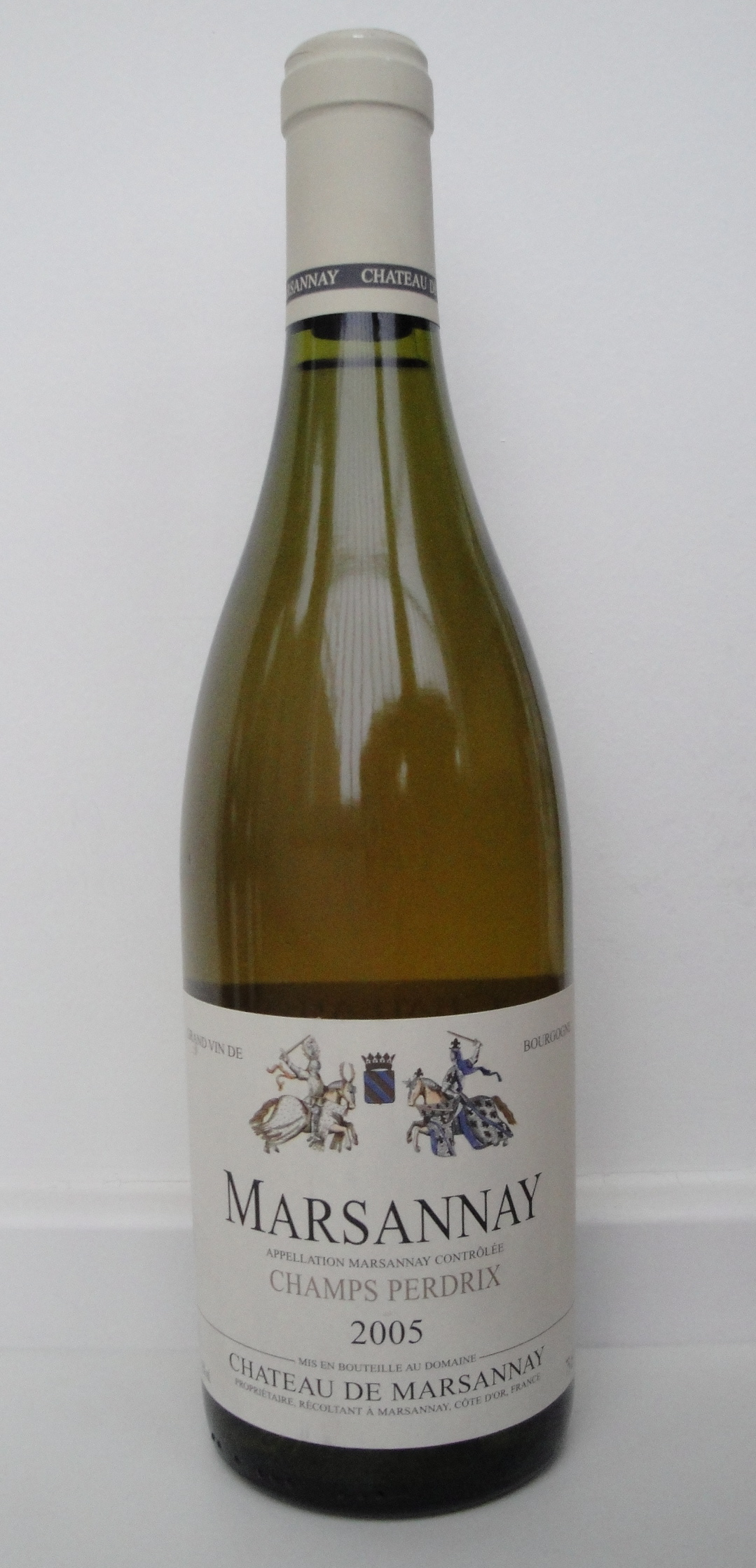 A bottle of Marsannay blanc "Champs Perdrix" 2005 from Château Marsannay.